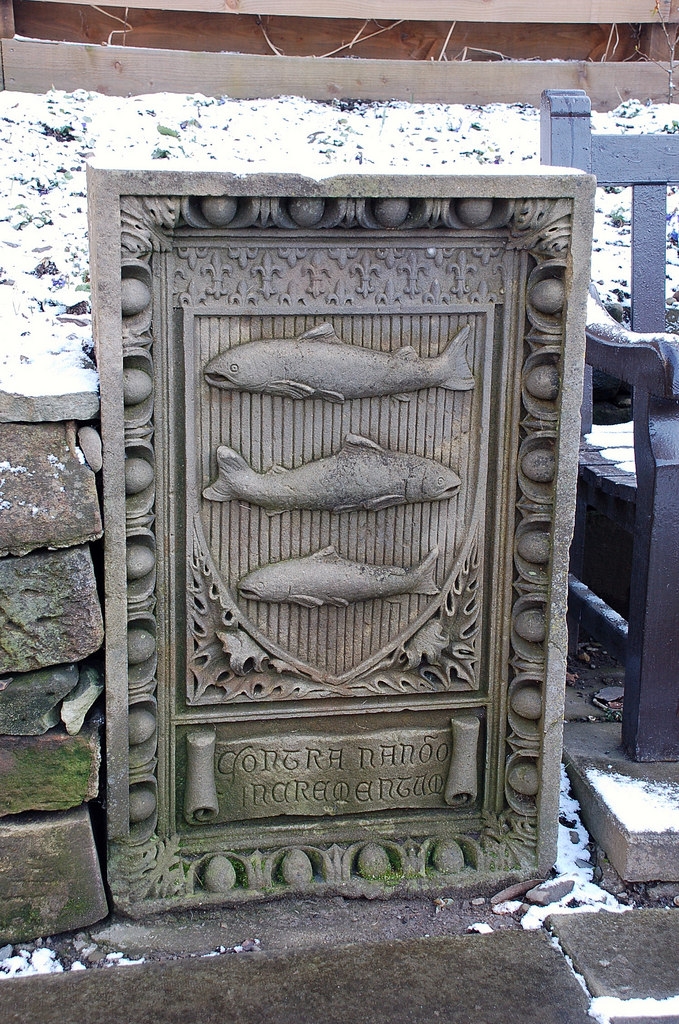 Peeblesshire's Coat of Arms Two of the salmon are swimming downstream, while the centre fish swims upstream: the Latin motto 'Contra Nando Incrementum' means 'There is increase by swimming against the stream', taking inspiration from the annual migration of the salmon up the Tweed. This plaque is situated in Northgate, though the three salmon symbol occurs in many places around the town. (Source: 'Old Peebles' by Rhona Wilson, Stenlake Publishing 1998)